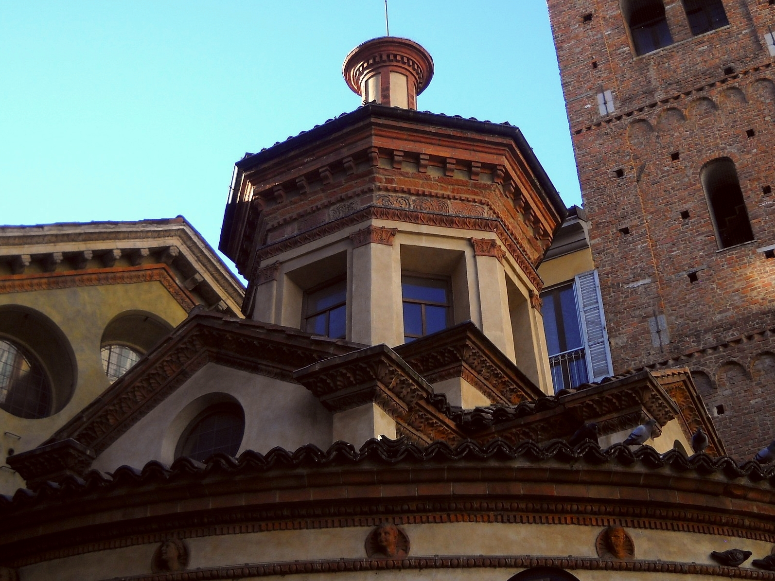 Particular of the "sacello di San Satiro" of the church of Santa Maria presso San Satiro